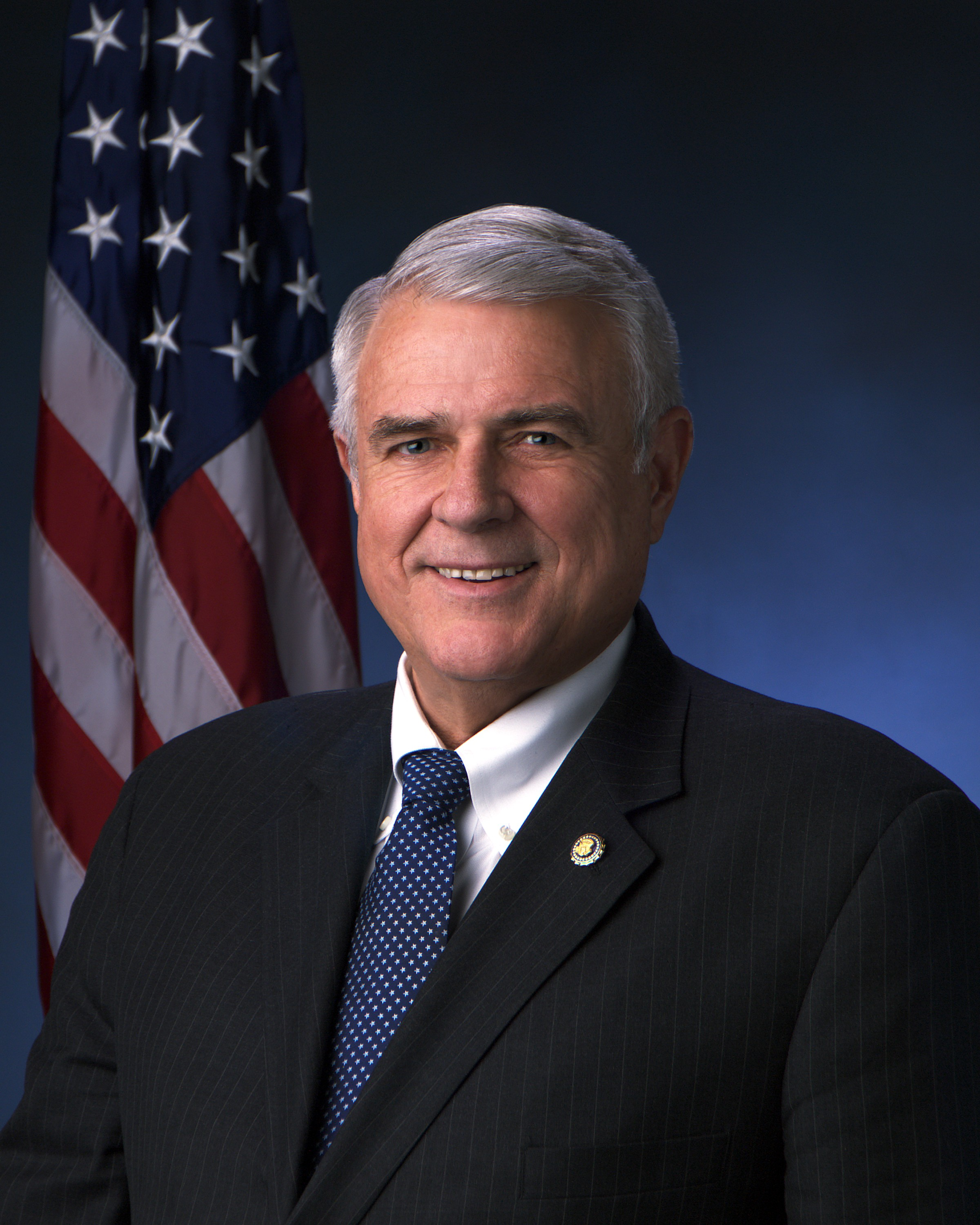 John Carter (Texas politician), U.S. Congressman.